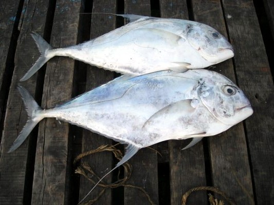 African pompano taken from Bali